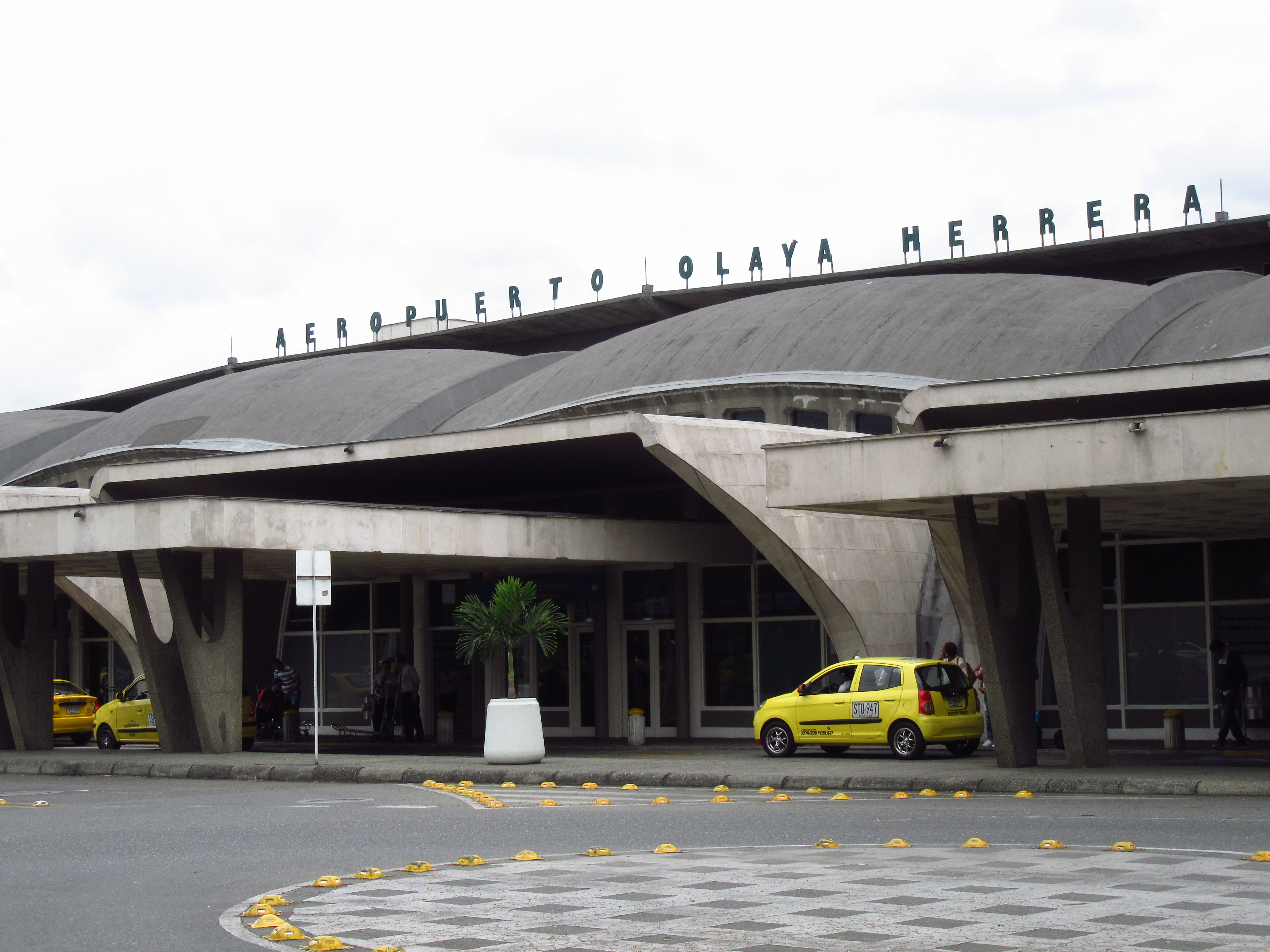 Medellín